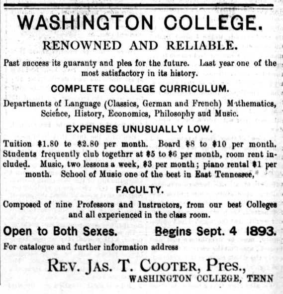 An 1893 ad for Washington College, a school located near Limestone in Washington County, Tennessee, United States.